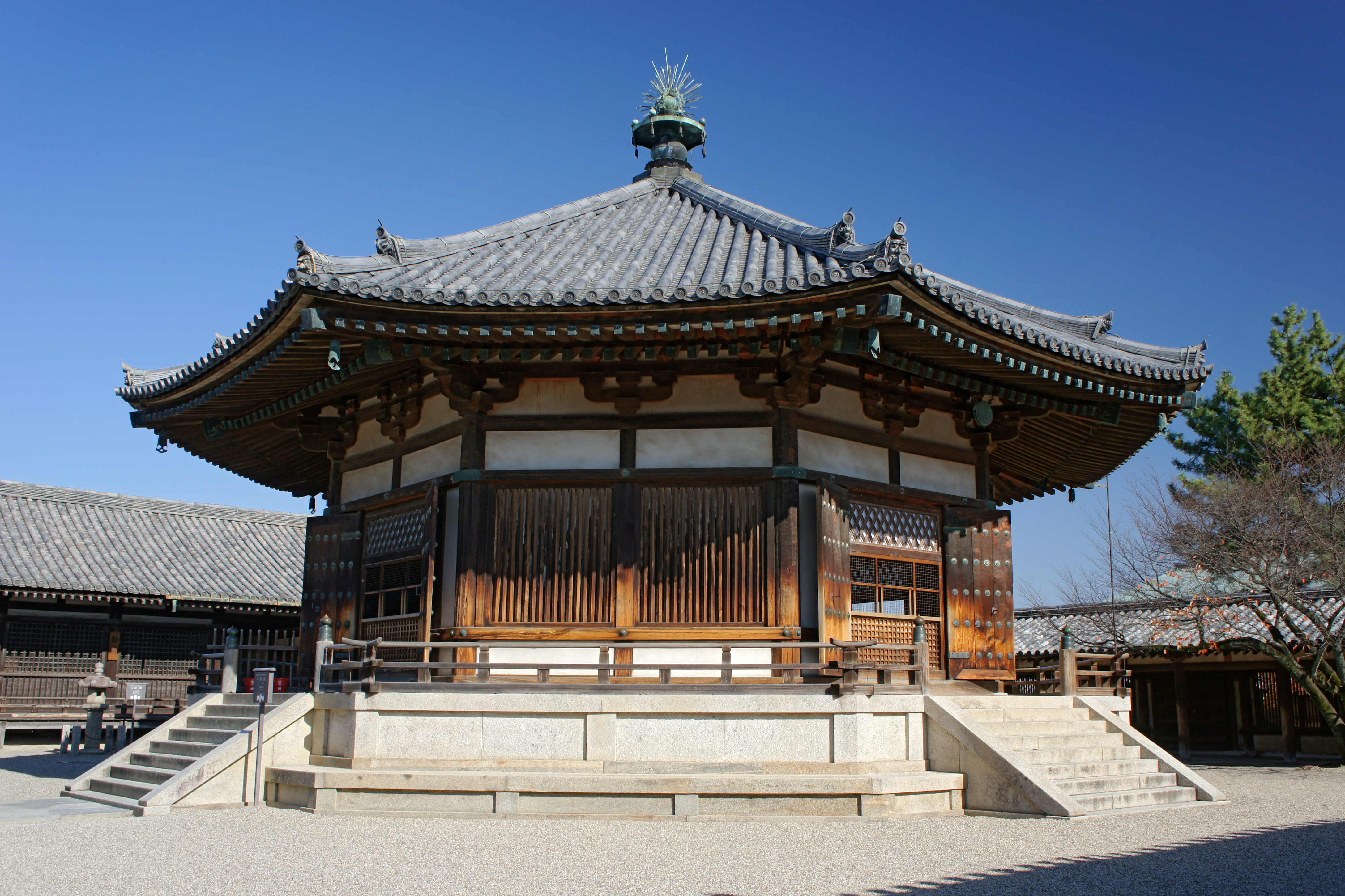 Yumedono of Hōryū-ji is a Japan's National Treasure. Hōryū-ji is a Buddhist temple in Ikaruga, Nara prefecture, Japan. It was registered as part of the UNESCO World Heritage Site "Buddhist Monuments in the Hōryū-ji Area".